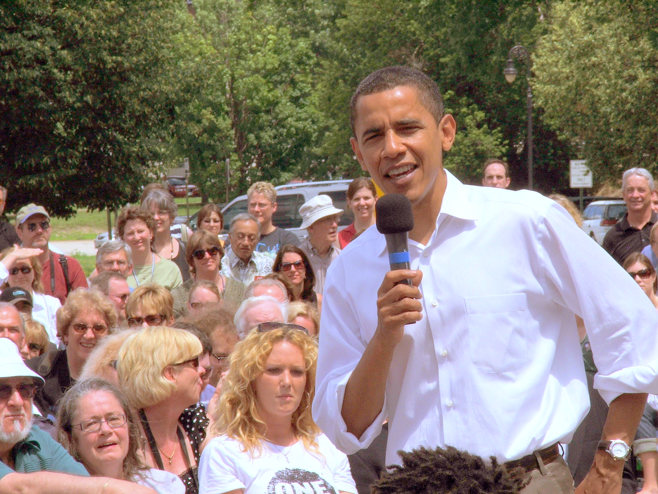 US Senator Barack Obama campaigning in New Hampshire